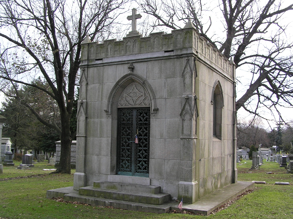 The mausoleum of George M. Cohan in Woodlawn Cemetery, Bronx, NY